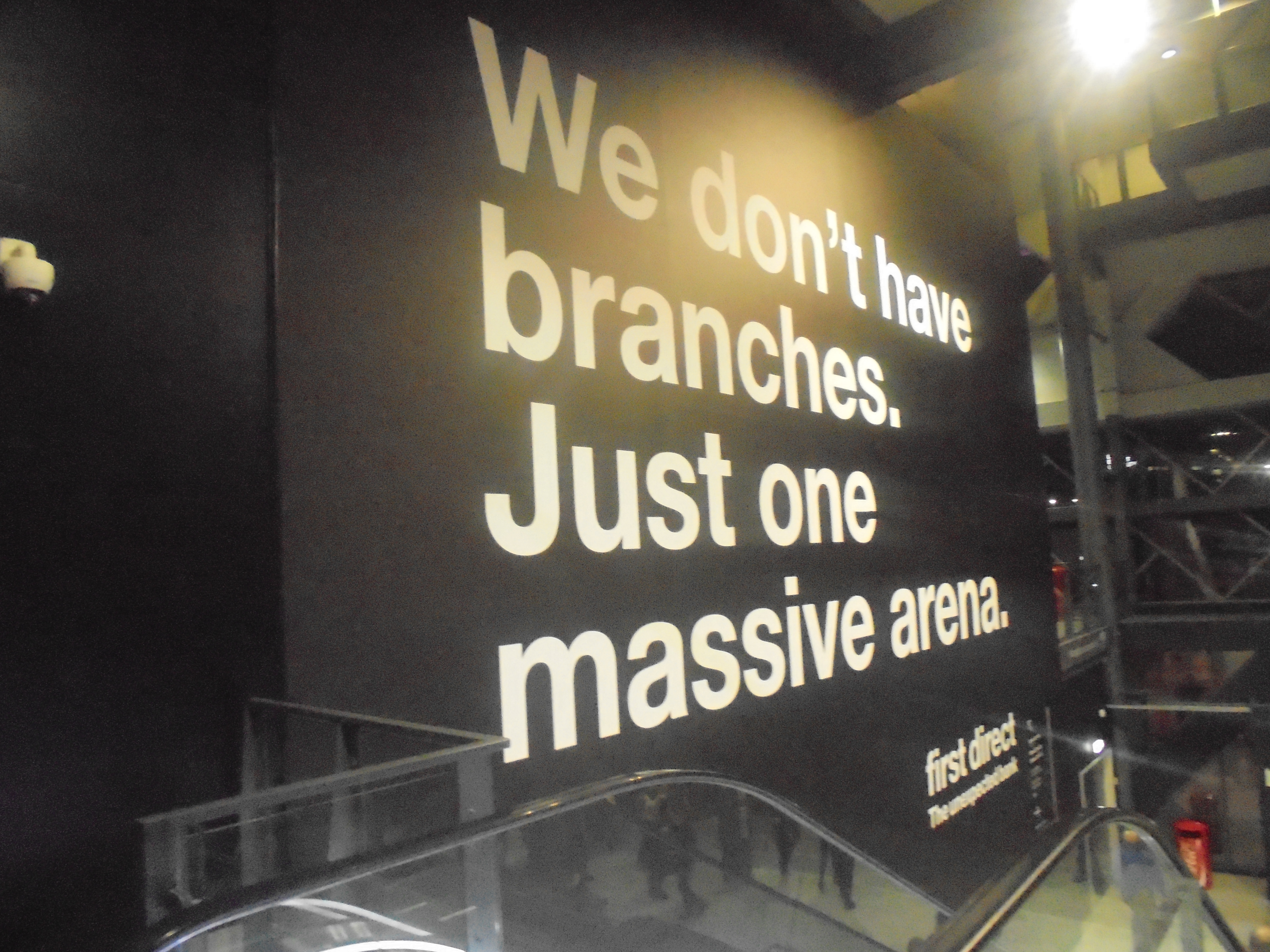 Concourse of the First Direct Arena, Leeds after a Manic Street Preachers concert. Taken on the night of Wednesday the 2nd of May 2018.